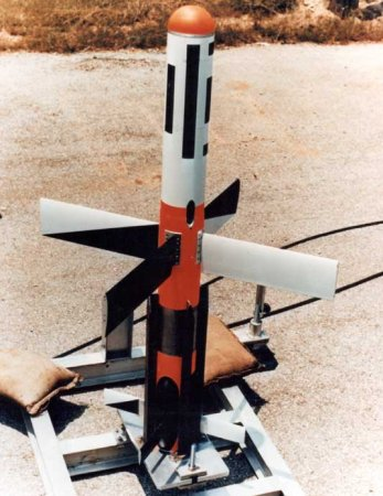 YMGM-157B Enhanced Fiber Optic Guided Missile prototype.